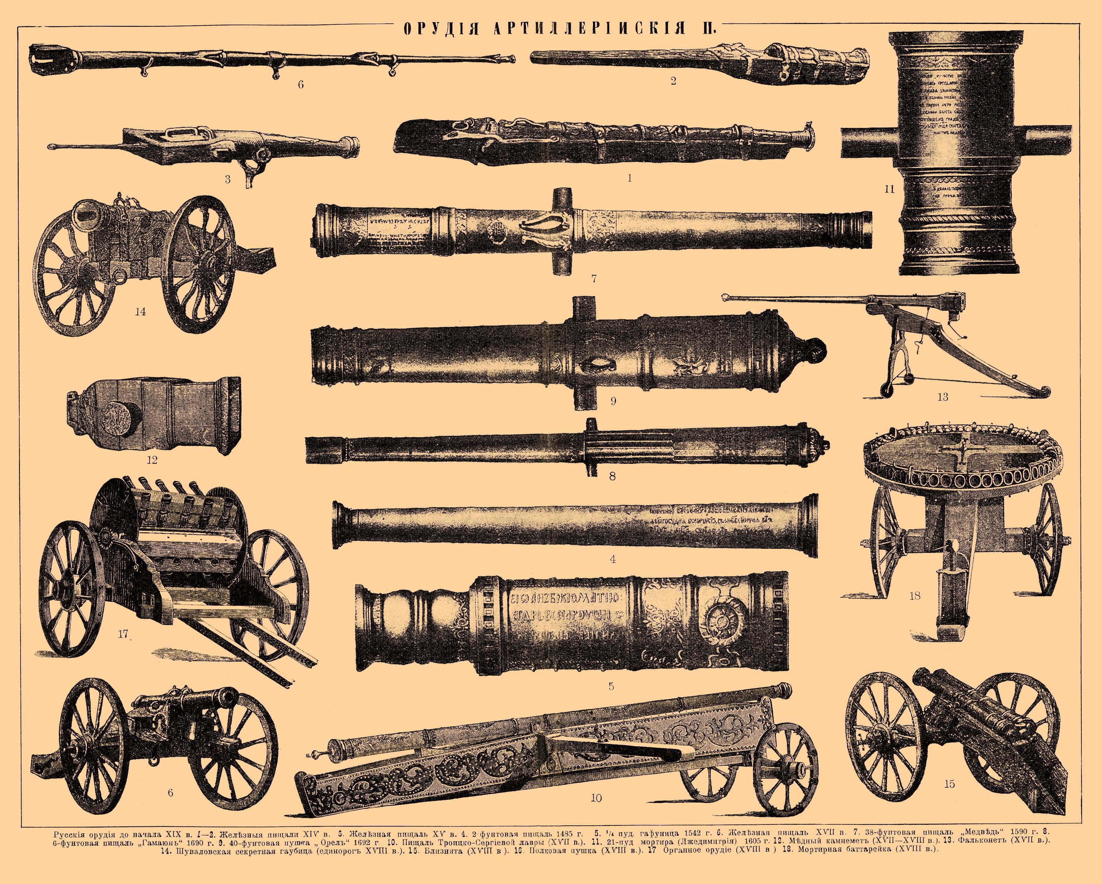 Illustration from Brockhaus and Efron Encyclopedic Dictionary (1890—1907)